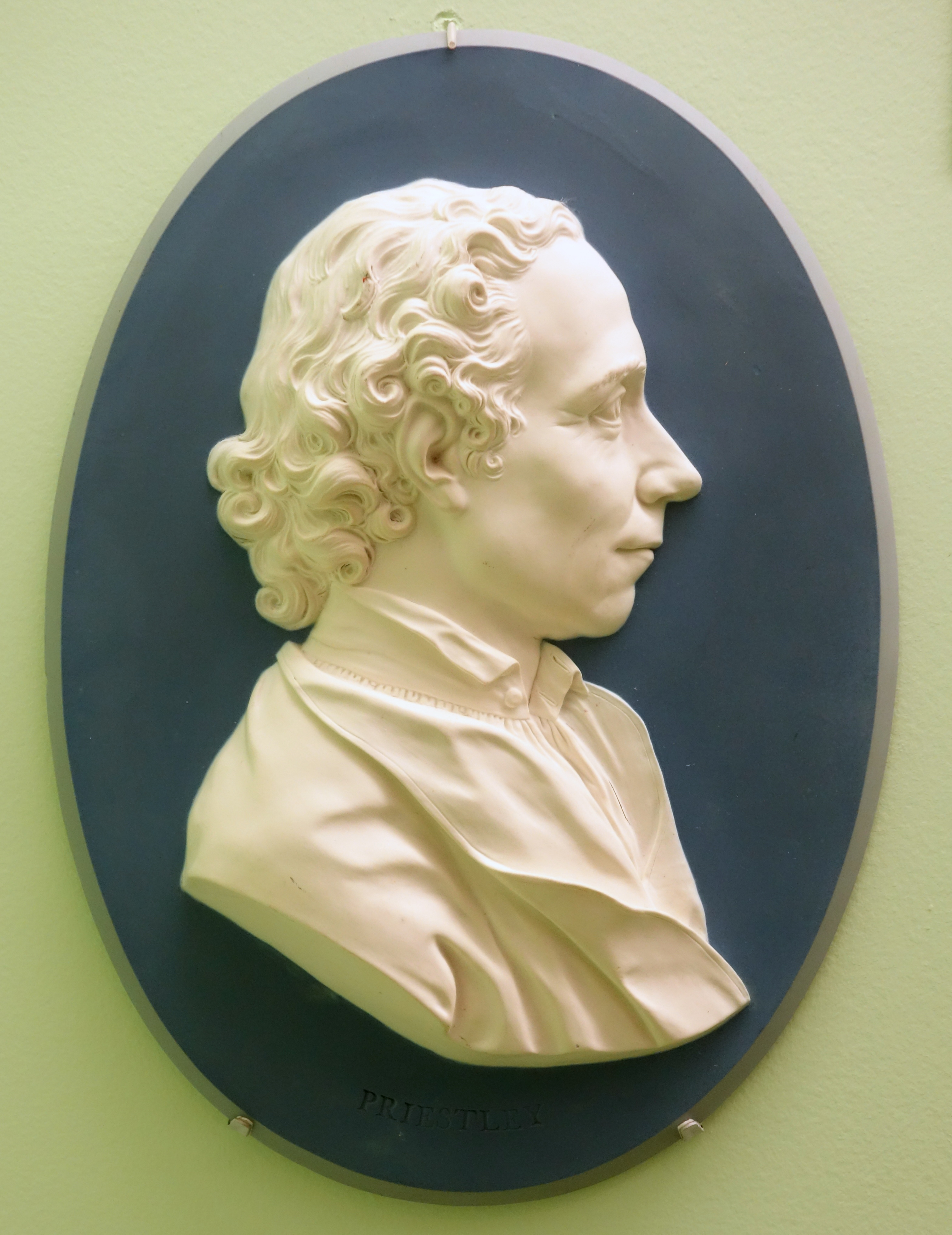 Exhibit in the Brooklyn Museum - Brooklyn, New York, USA. This artwork is in the public domain because the artist died more than 70 years ago.